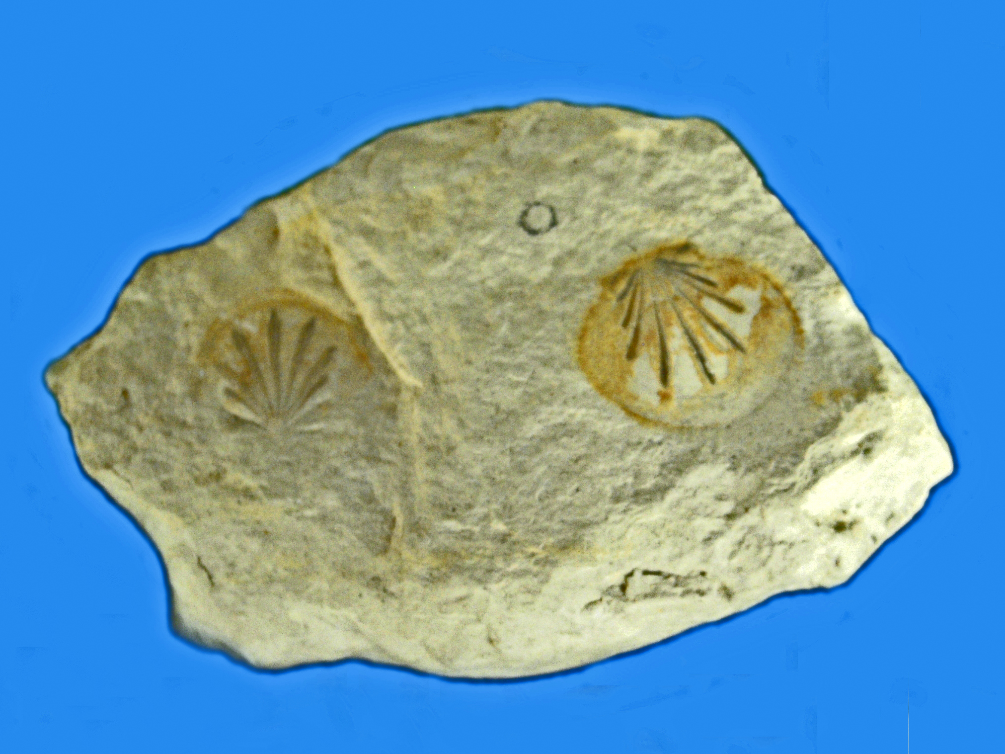 Fossil shells of Propeamussium eocenicum from Syria, on display at Gallery of Paleontology and Comparative Anatomy, Paris.